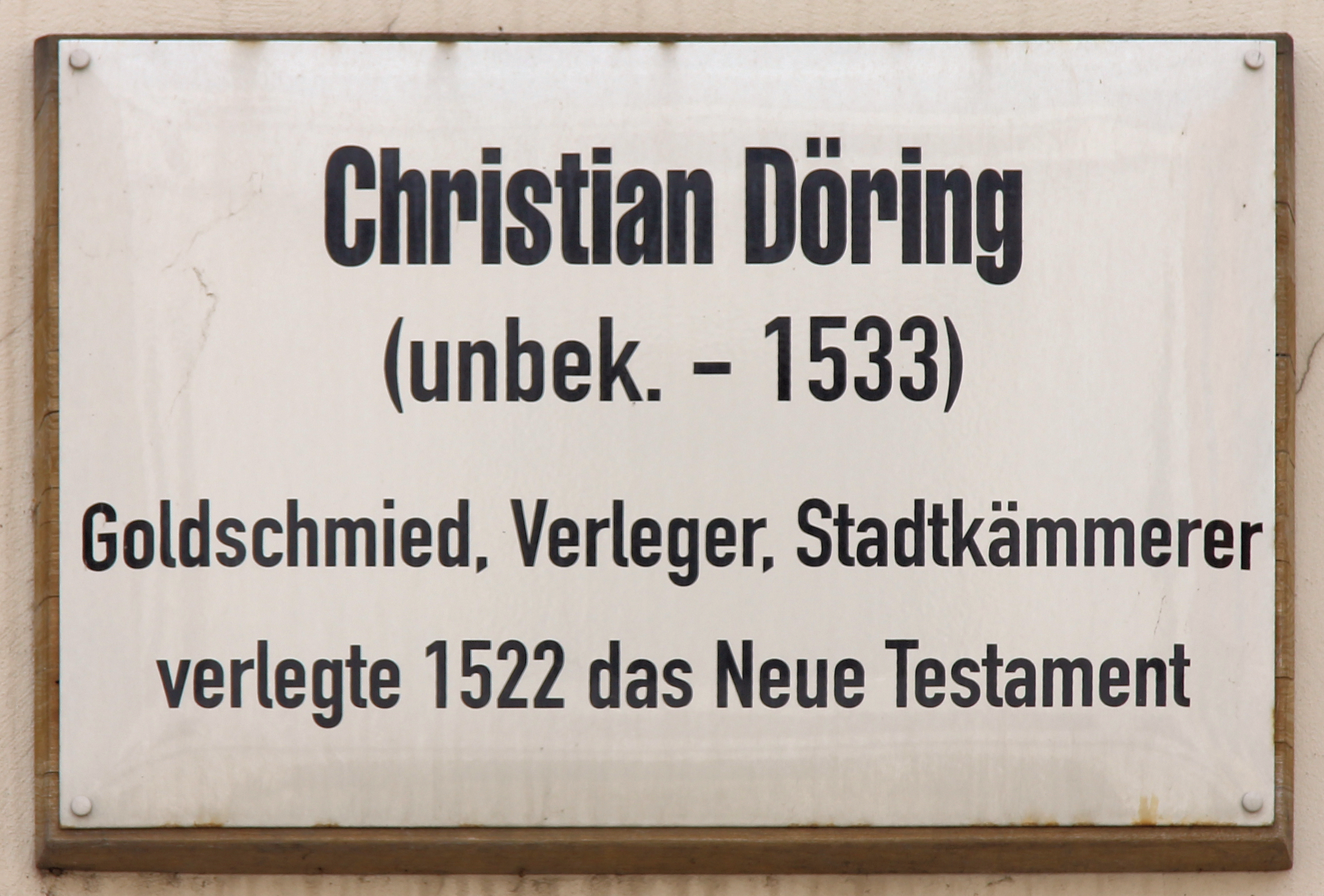 Memorial plaque, Christian Döring, Schloßstraße 26, Lutherstadt Wittenberg, Germany Koordinate:51°51′59″N 12°38′28″E / 51.86639°N 12.64111°E